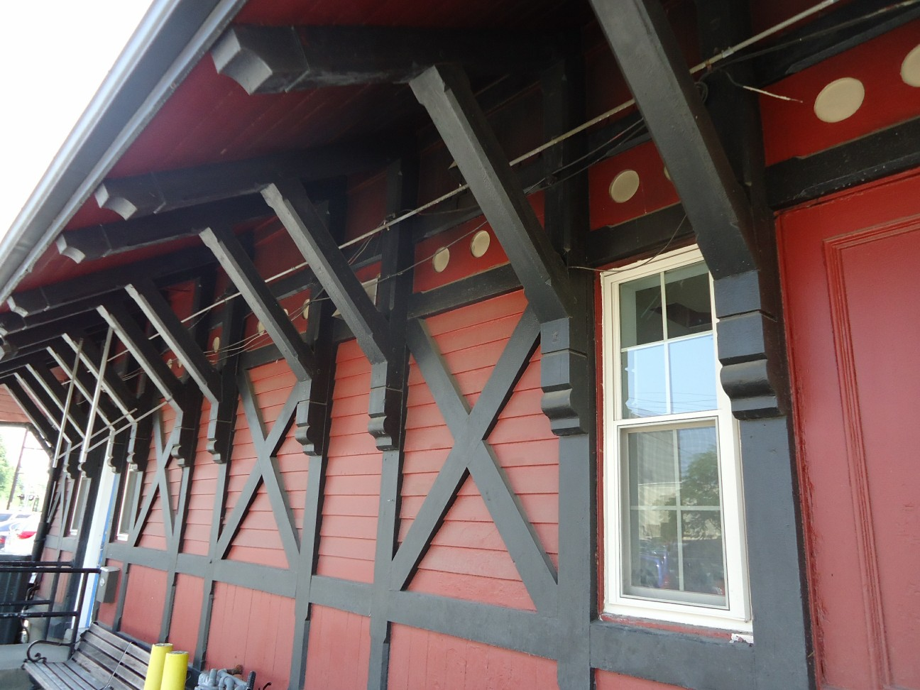 Exterior of train station in Berkeley Heights, New Jersey.